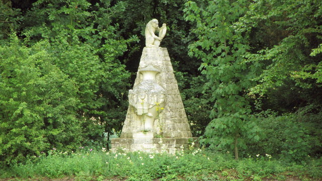 Stowe, The Congreve Monument